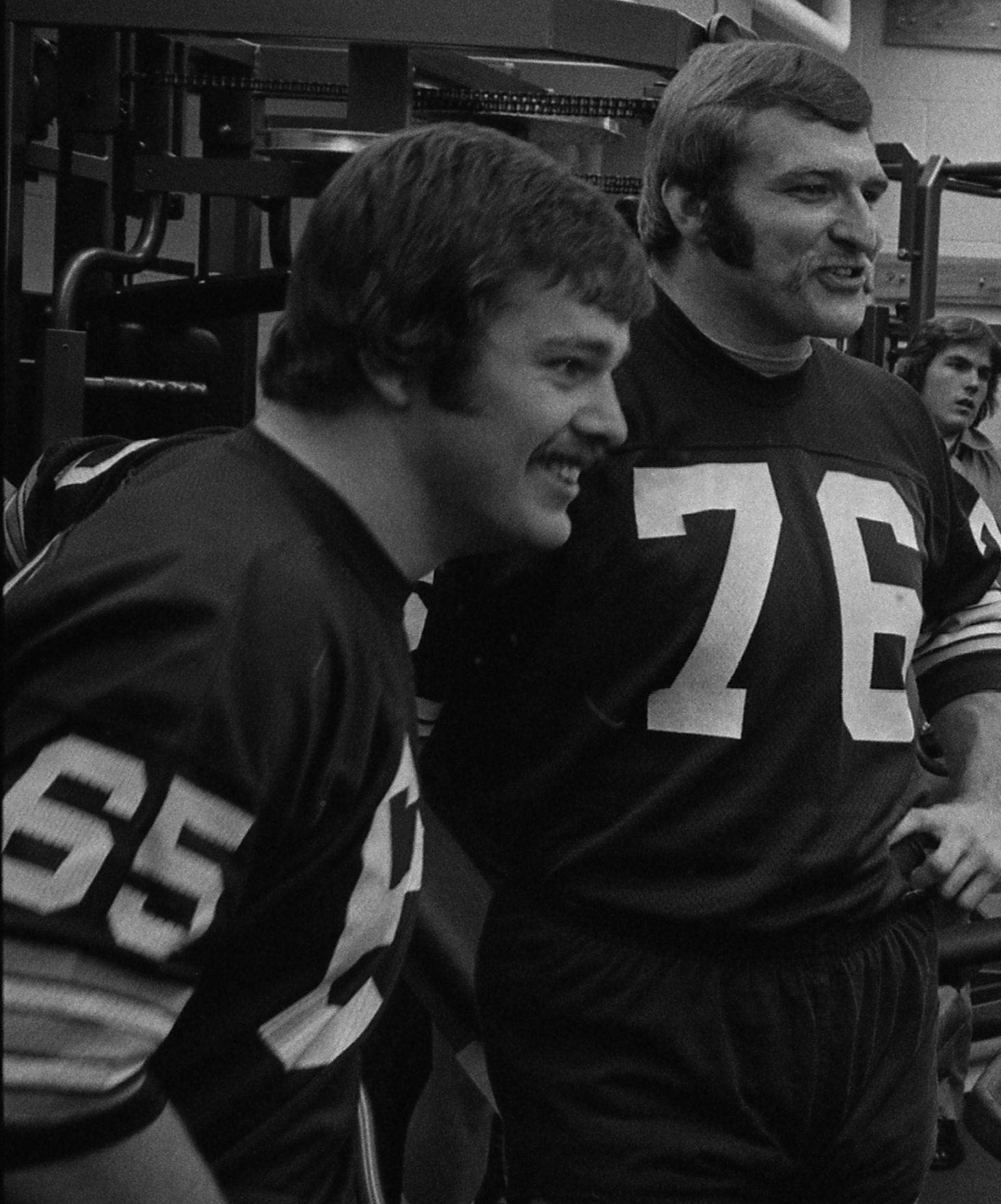 1976, April 3 – Green Bay Packers Hall of Fame – Green Bay, WI – Gerald R. Ford, Bart Starr, Tom Hutchinson, Media – touring memorabilia exhibits inside – Campaign Trip to Wisconsin; Dedication Ceremony Green Bay Packers Hall of Fame. This photograph depicts President Gerald R. Ford speaking with Green Bay Packers players Keith Wortman (#65), Mike McCoy (#76), and Eric Torkelson (#26) in the weight room during a tour of the Green Bay Packers Headquarters in Green Bay, Wisconsin.